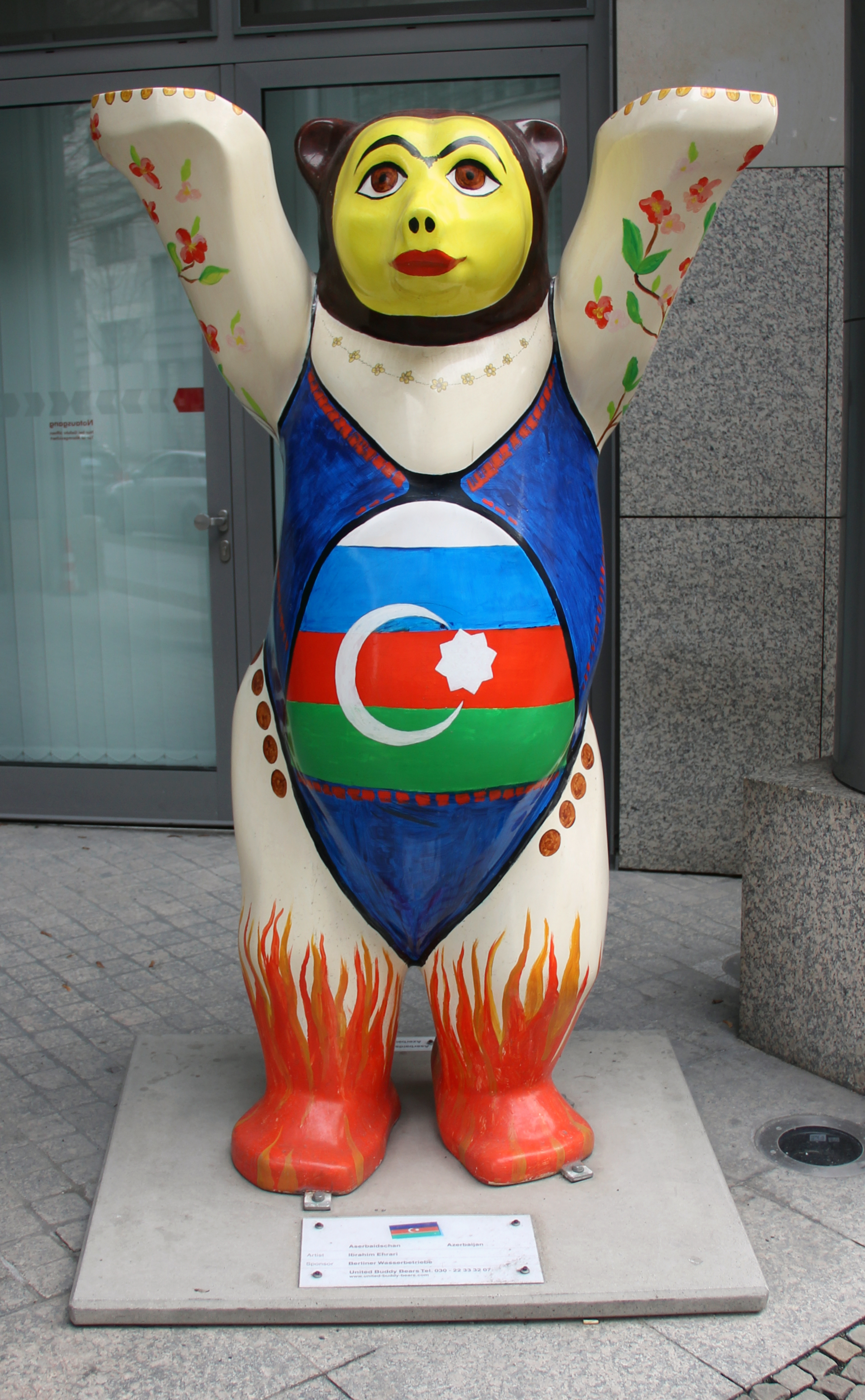 Aserbaidschan Bär, Neue Jüdenstraße 1, Berlin-Mitte, Germany